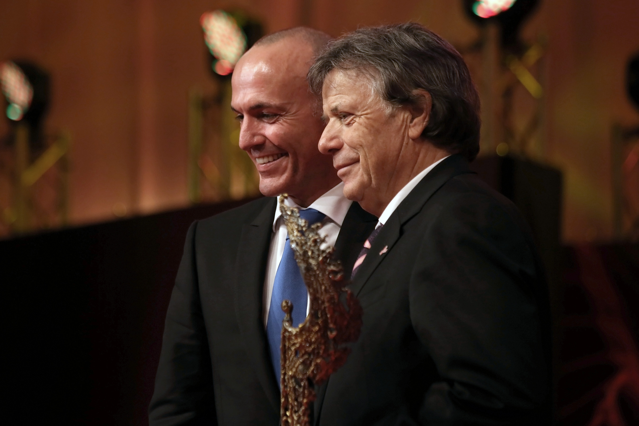 Peter Schröcksnadel and Gerald Klug at the award show for the Austrian Sportspersonalities of the Year 2013 at Austria Center Vienna (Vienna, Austria).